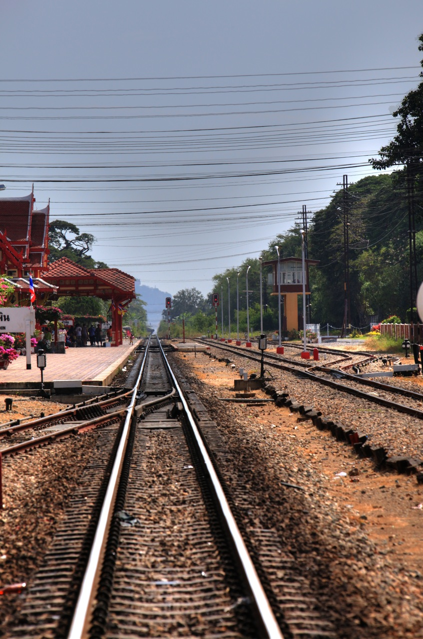 Hua Hin Railway